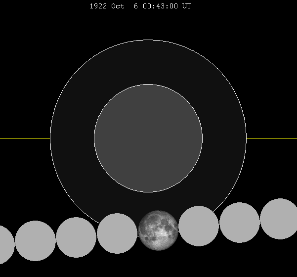 =lunar eclipse chart of moon's path through the earth's shadow. thumb